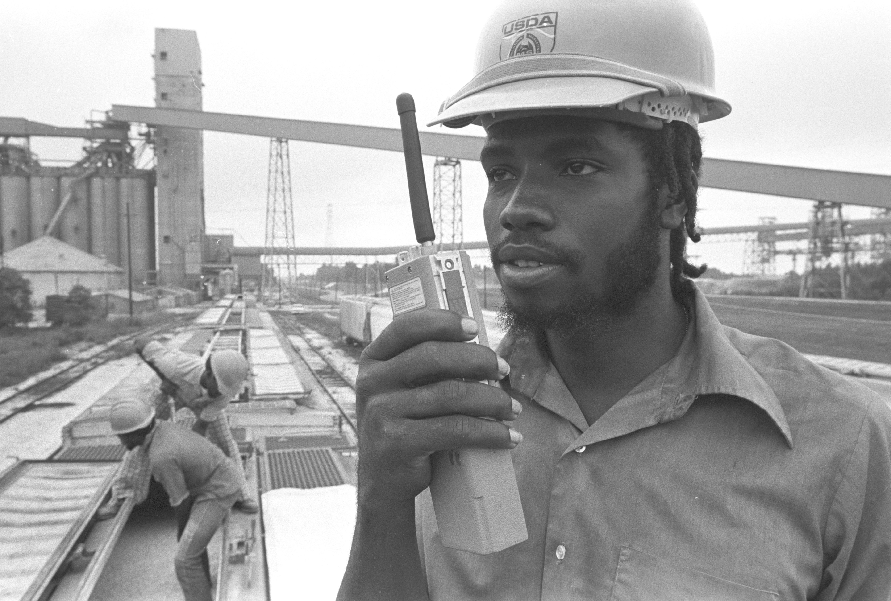 U.S. Department of Agriculture (USDA) Agricultural Marketing Service (AMS) Grain inspection employees take samples of grain from freight cars for testing in New Orleans, Louisiana on October 7, 1976. A USDA AMS grain inspector reports to cargo authorities on the progress of the inspection. Photo courtesy of National Archives and Records Administration. USDA inspector holds RCA TacTec walkie-talkie.